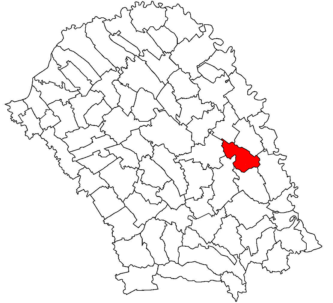 Map of Dobârceni, Botoșani County, Romania